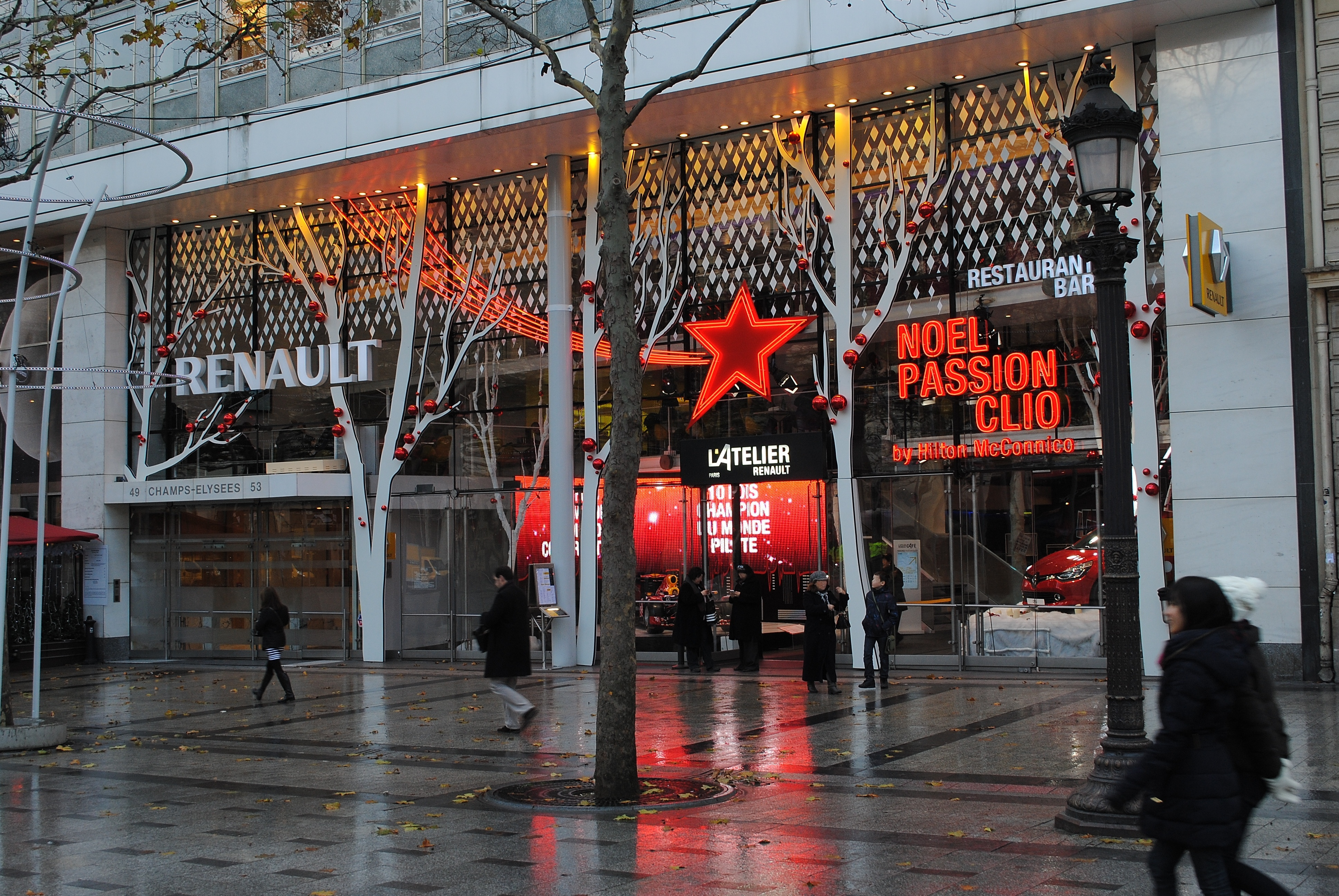 The showroom L'Atelier Renault (53, Avenue des Champs Élysées, Paris).